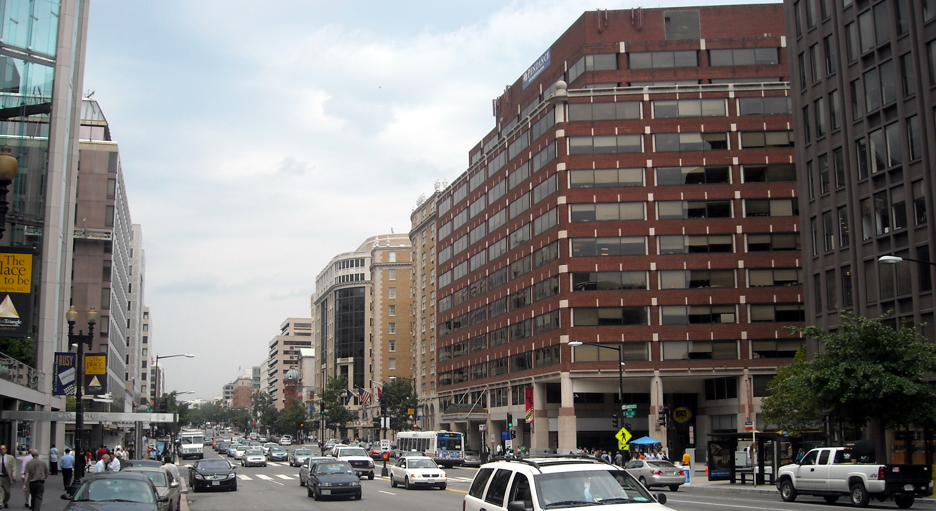 Looking north on Connecticut Avenue, NW in Washington, D.C. Dupont Circle can be seen up the street.